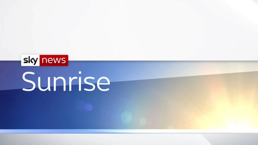 Sunrise logo